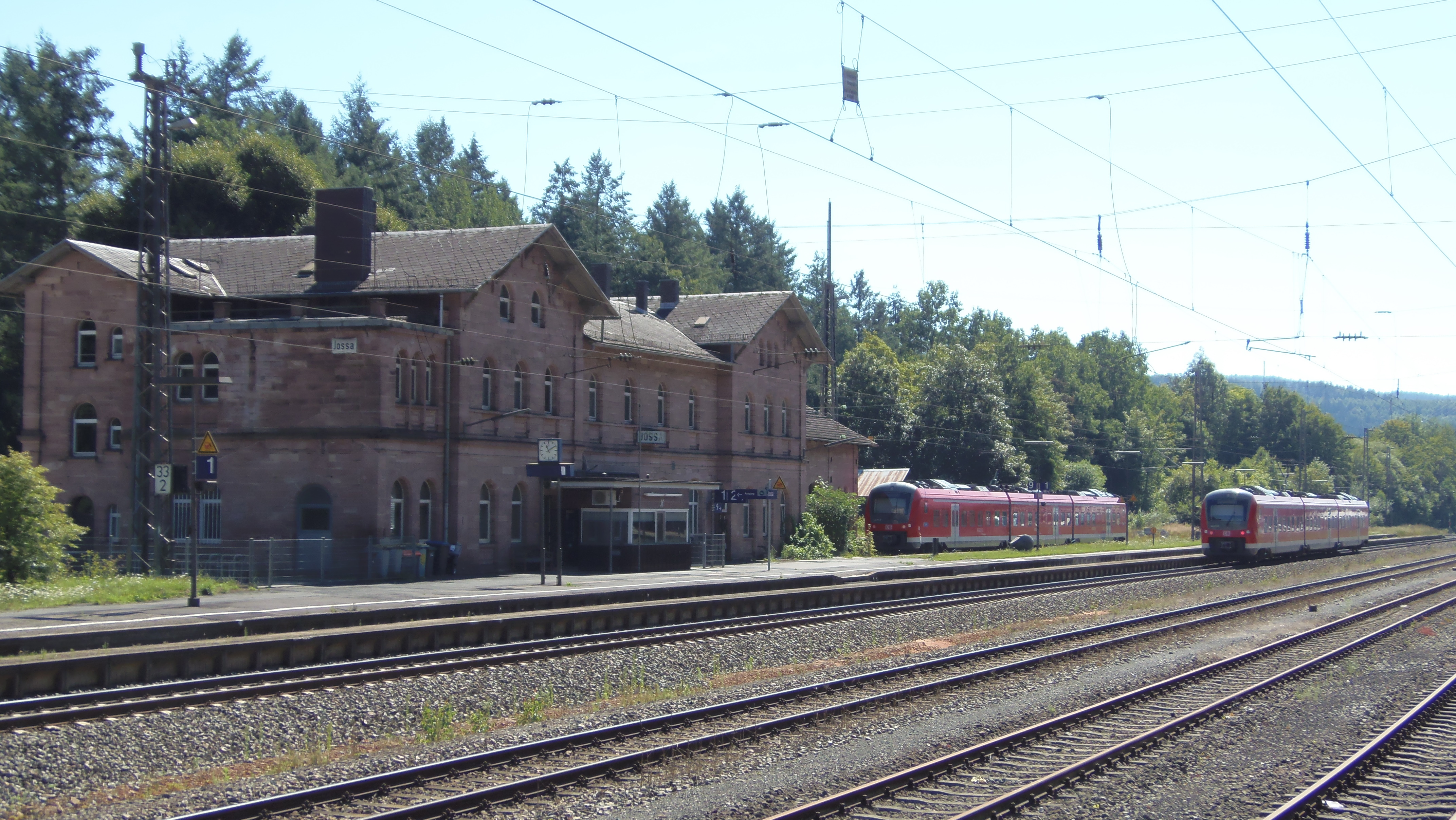 Regional trains in Jossa